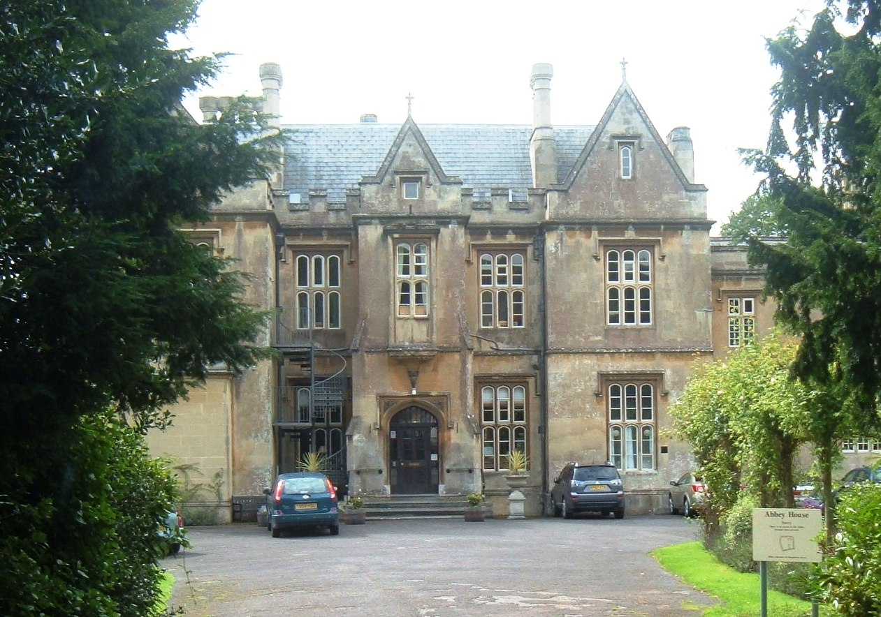 Abbey Retreat House in Glastonbury Somerset